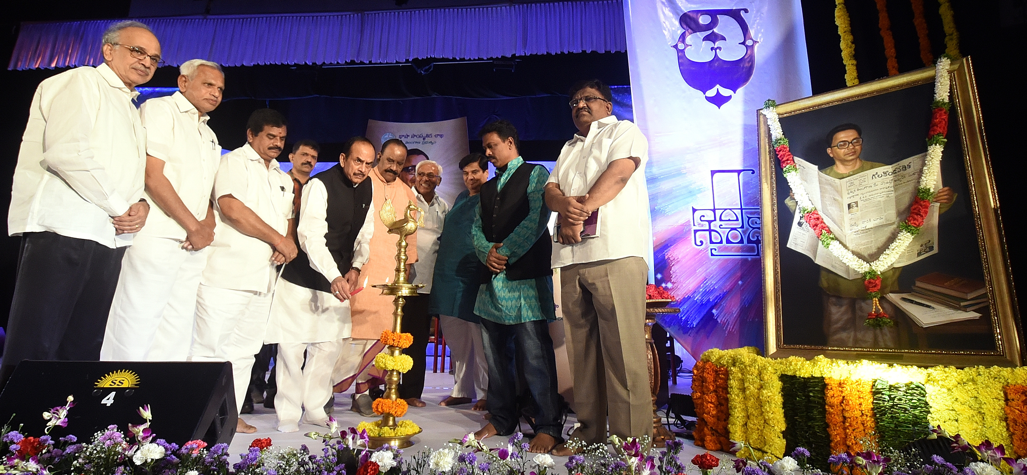 Inauguration of Dasarathi Sahiti Puraskaram 2018